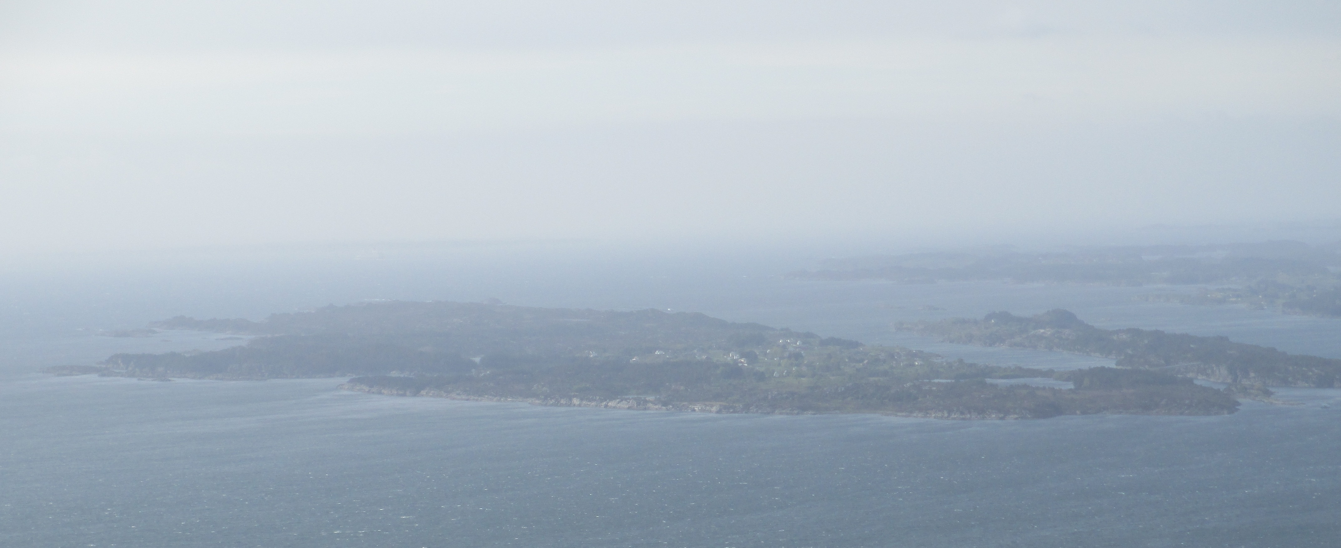 The island Toska and Uttosko, Radøy, Hordaland, Norway, photographed from Eldsfjellet (Meland)